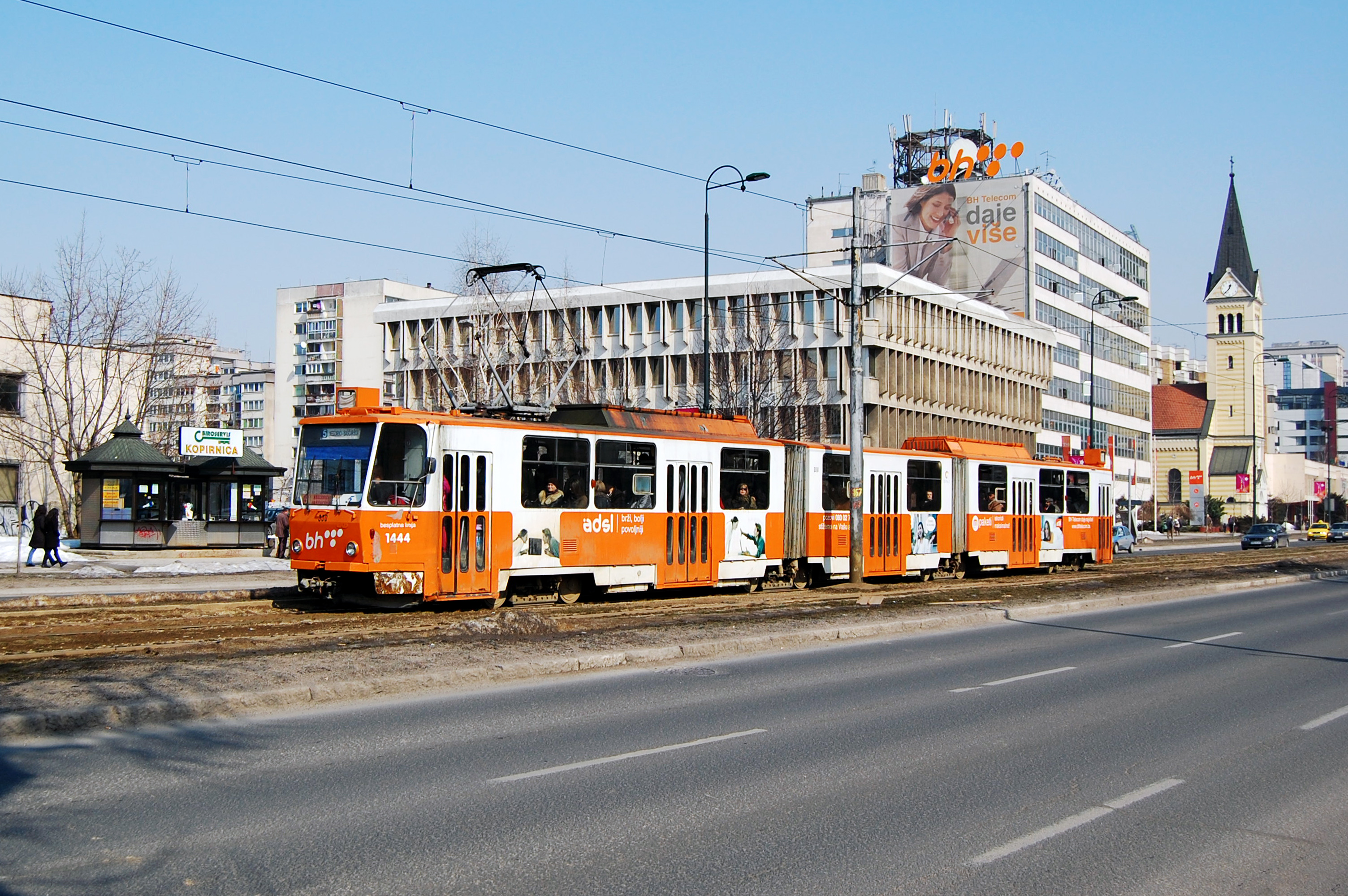 Tram #300 at Dolac Malta, Line #5, March 5, 2012